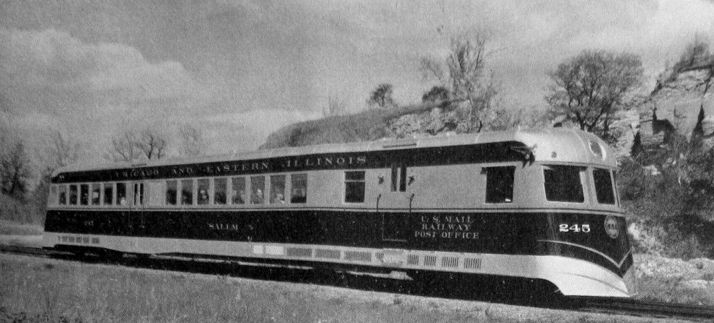 Photo of the Chicago and Eastern Illinois Railroad's streamliner, the Egyptian Zipper. This was built by American Car and Foundry Company's Berwick, PA plant in 1937. There were 2 trainsets, with both traveling between Danville and Cypress, IL.